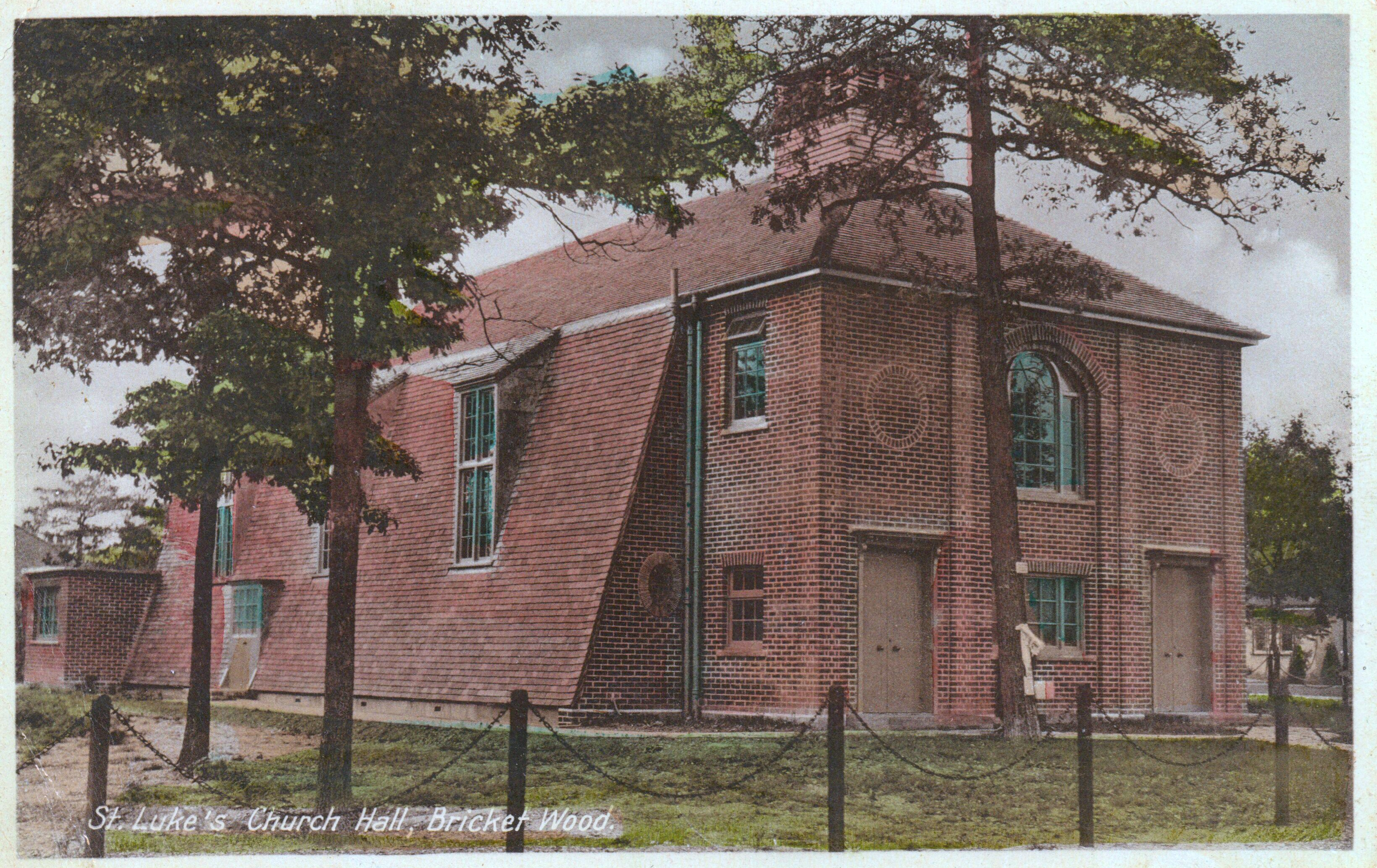 A colour postcard of the church, dating from the early/mid 20th century. The view here is taken from The Crescent, one of the two roads which boarders the church. This photograph highlights the inverted boat shape design.